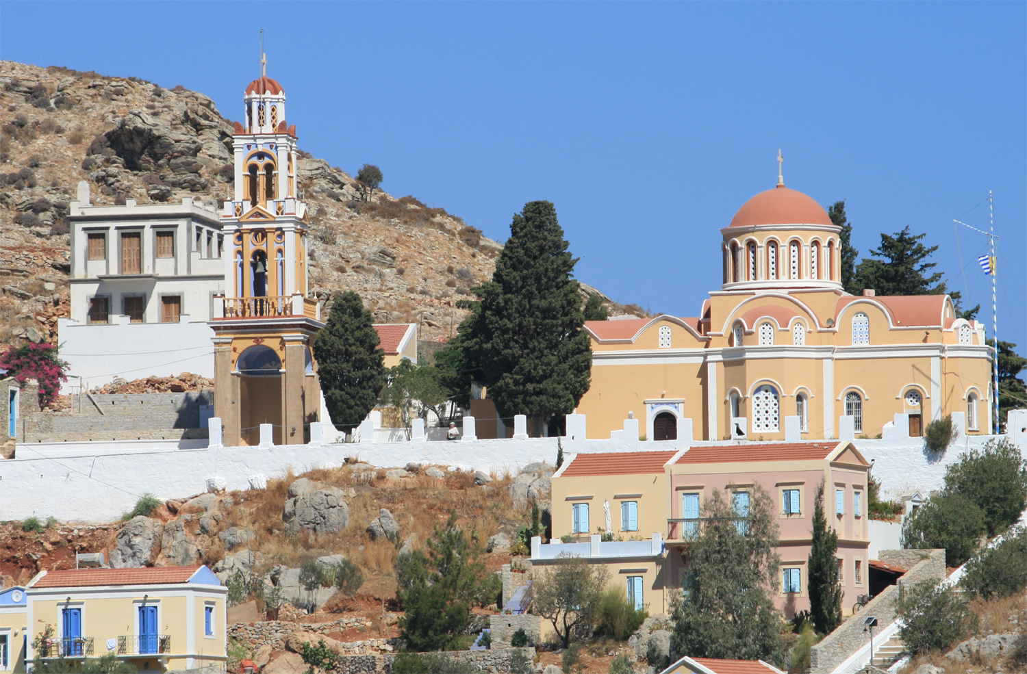 Small Greece town Sími on the Sími island Date= August 2007 Author= Karelj